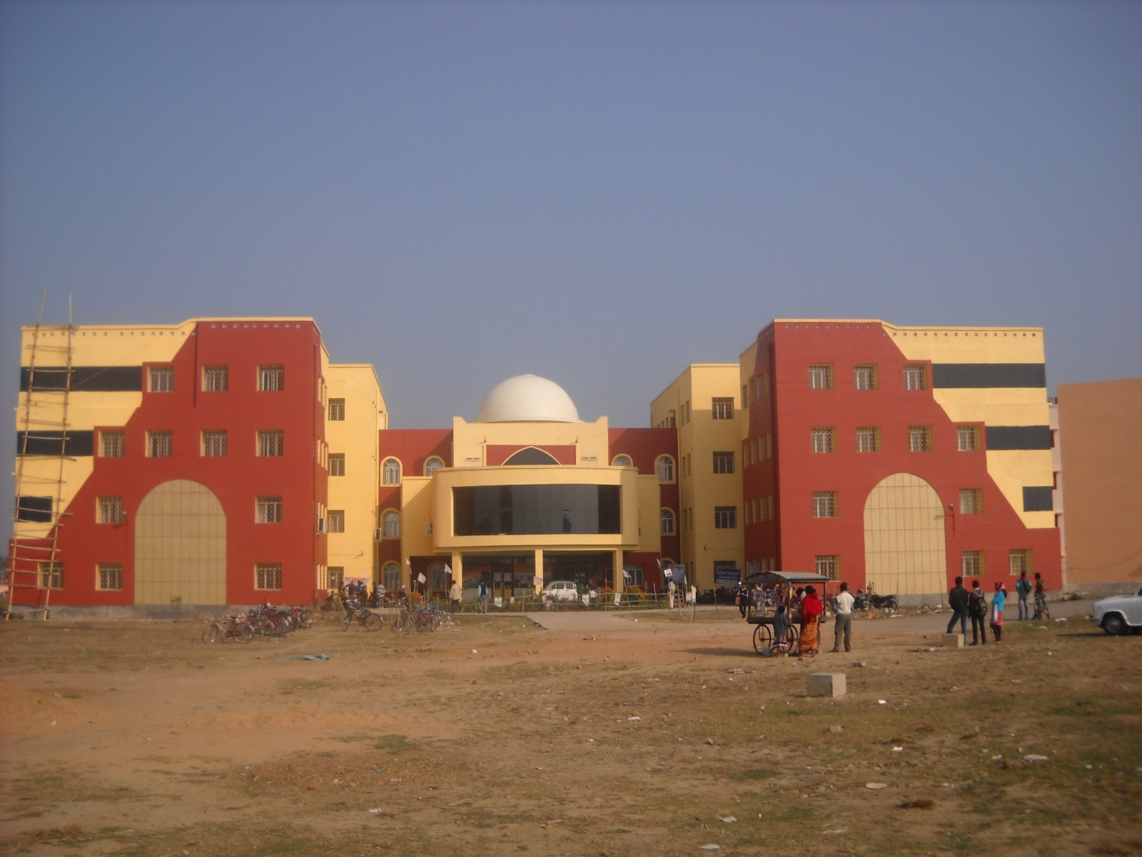 The main building of the University of Gour Banga.